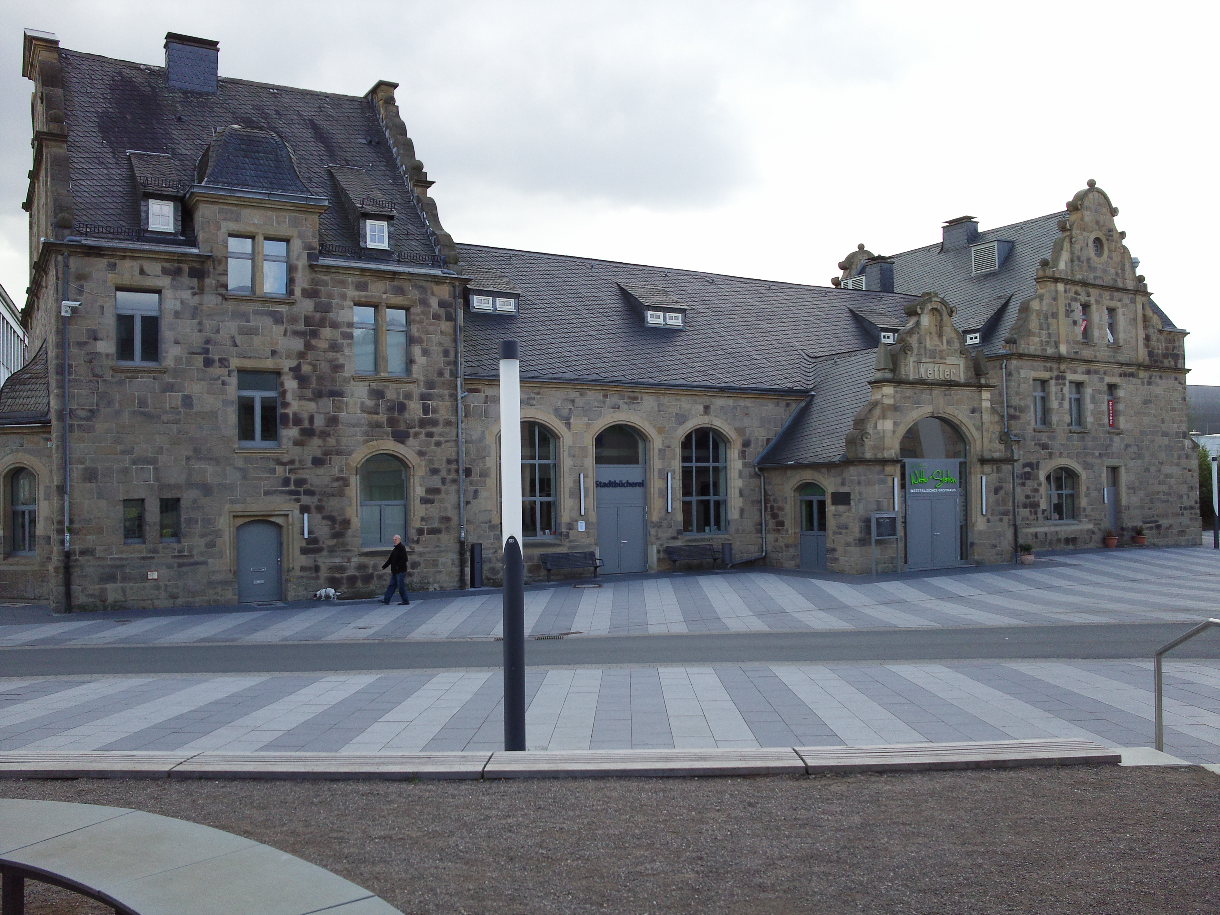 A building of train station in Wetter (Ruhr), Germany This is a photograph of an architectural monument.